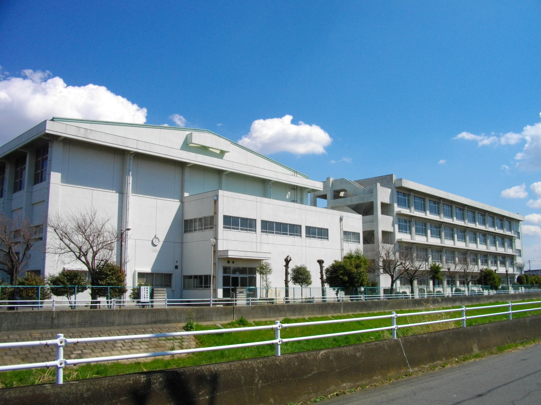 Ichikawa-Subaru High School